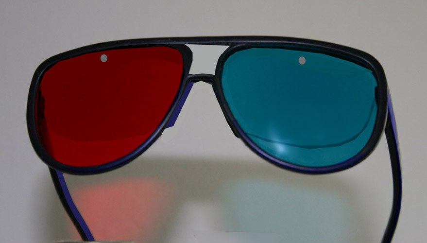 Anachrome aviator style glasses with secondary reading lenses attached for better focus. Special filter comnination for warmer color and less "retinal rivalry" discomfort. This is my own photograph from files supporting my website